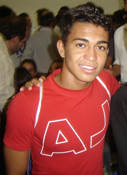 Photo of Dudu (Eduardo Pereira Rodrigues), Brazilian football player.